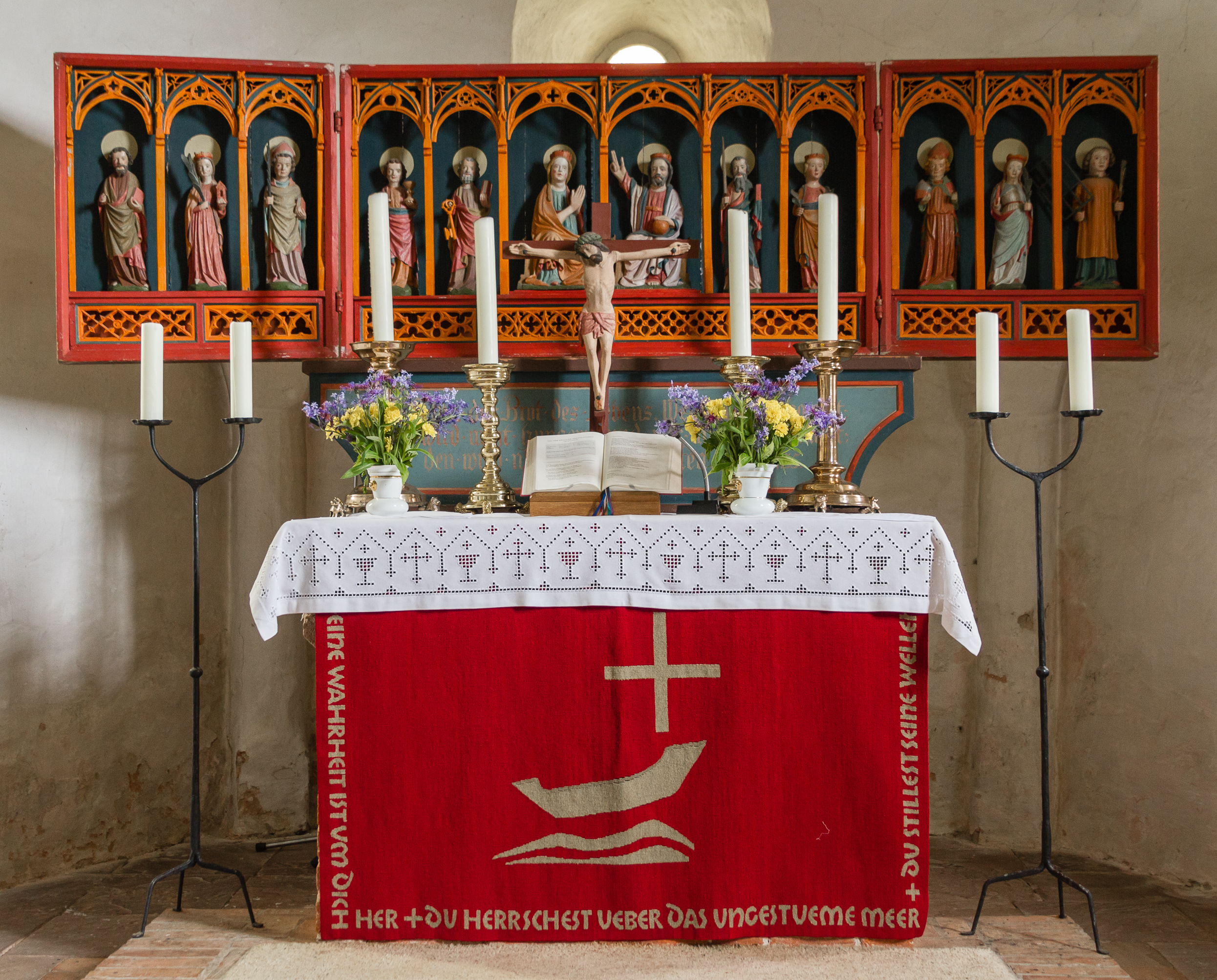 Designation: Church St. Laurentii with equipment Location: Sarkstig House number: 1 Place: Süderende, Collective municipality Föhr-Amrum, District Nordfriesland, Schleswig-Holstein, Federal Republic of Germany Construction time: second half of the 12th century Description: St. Laurentii was first mentioned in a Church Directory from the year 1240. The building has been extended several times in the centuries of the existence. Object identification: 4813